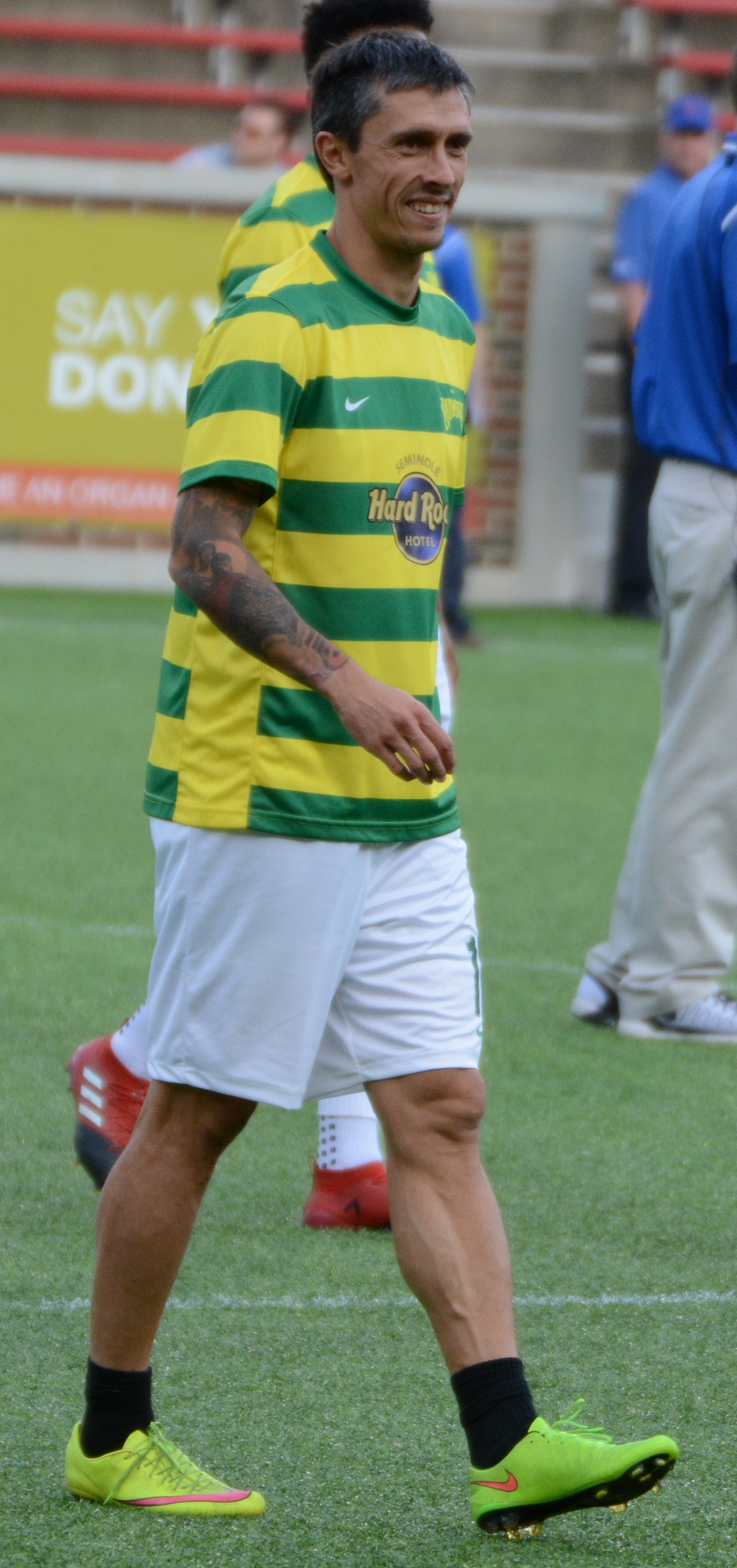 Georgi Hristov Taken during a match between FC Cincinnati and Tampa Bay Rowdies at Nippert Stadium in Cincinnati, USA on April 19, 2017.